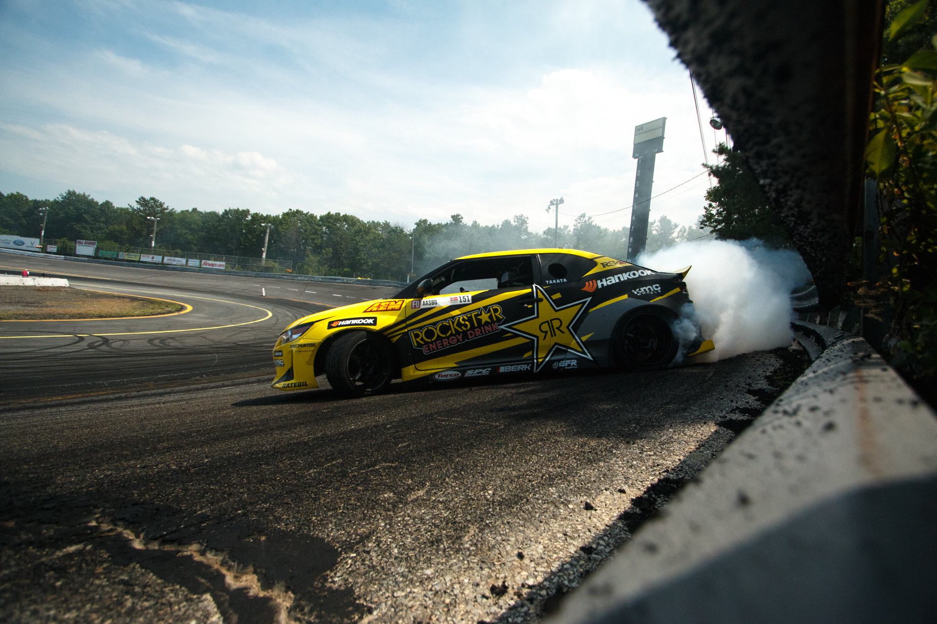 Fredric Aasbo gets close to the wall in the Papadakis Racing built Rockstar Energy Drink Scion tC on the way to the 2015 Formula Drift Championship.